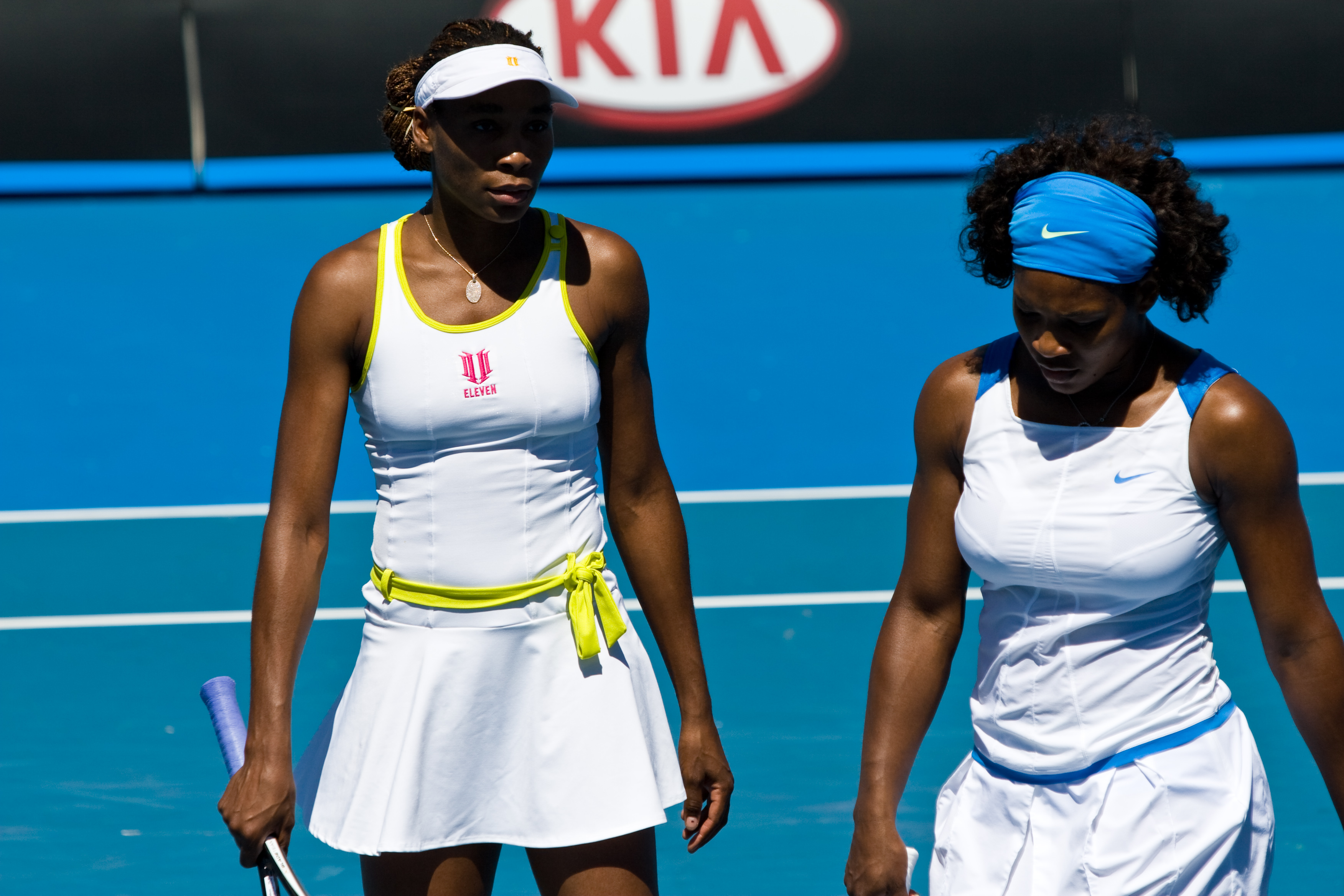 Australian Open 2009